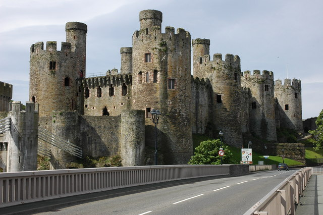 Conwy Castle One of the great castles of Wales, Conwy Castle was built by Master James of St. George, between 1283 and 1287, for King Edward I's campaign of Wales. Here the castle is viewed from the 1958 road bridge.